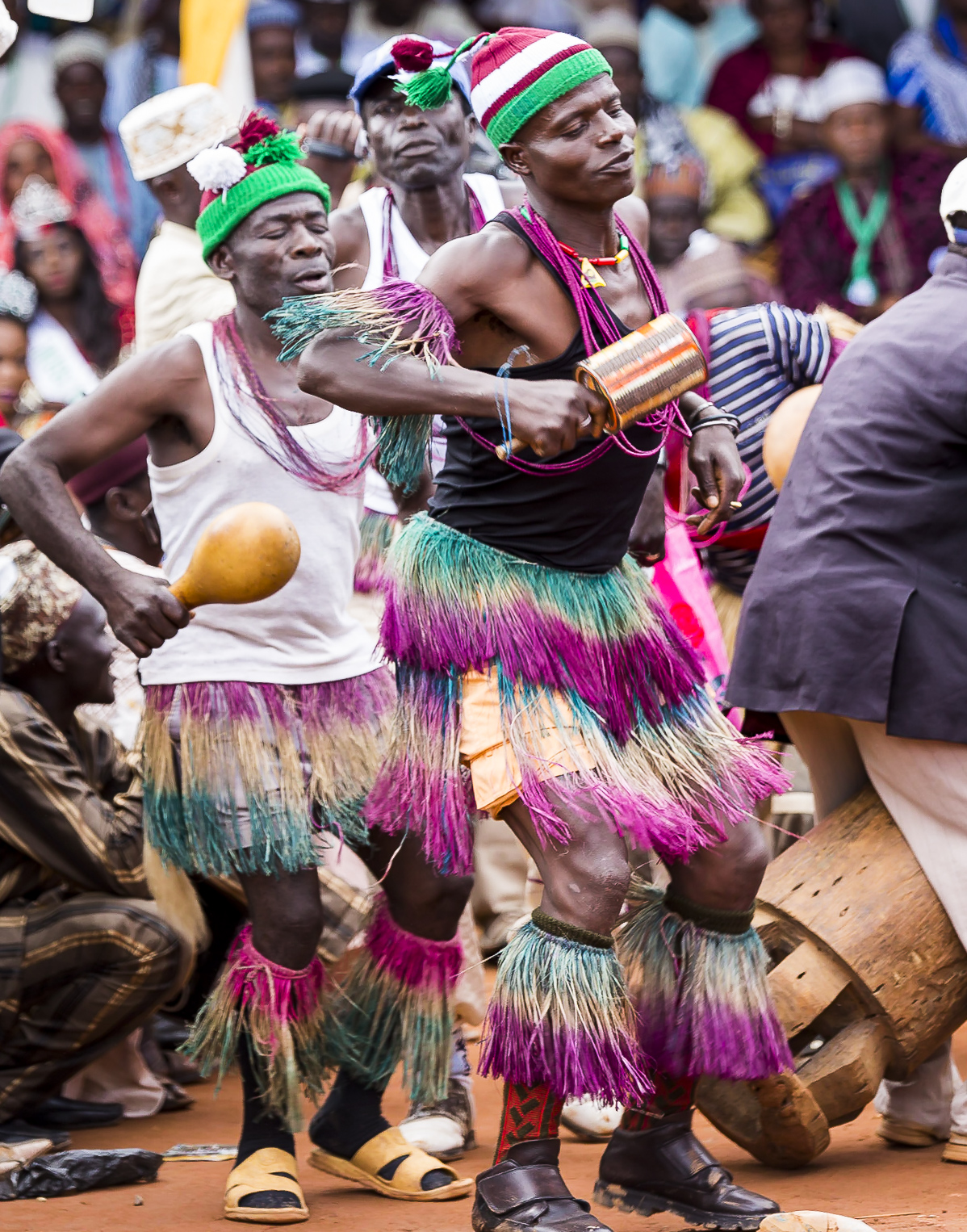 This picture was taken September 27, 2016. The date is celebrated as World Tourism Day in Taraba State of Nigeria. The individuals seen in the picture were enthusiastic and genuinely happy dancing and portraying the colors of our culture as part of our existential identity. Gembu, Sarduna Local Government Area of Taraba State. Nigeria This is an image from Nigeria